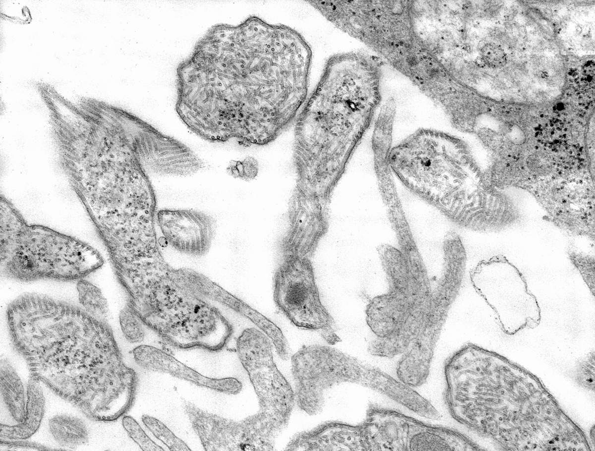 This 1977 thin sectioned transmission electron micrograph (TEM) depicted the ultrastructural details of the mumps virions that had been grown in a Vero cell culture. Mumps is an acute viral illness caused by the mumps virus. Symptoms include fever, headache, muscle aches, tiredness, and loss of appetite, which are followed by swelling of salivary glands. The parotid salivary glands (which are located within your cheek, near your jaw line, below your ears) are most frequently affected. Severe complications are rare. However, mumps can cause: -inflammation of the brain and/or tissue covering the brain and spinal cord (encephalitis/meningitis) -inflammation of the testicles (orchitis) -inflammation of the ovaries and/or breasts (oophoritis and mastitis) -spontaneous abortion -deafness, usually permanent